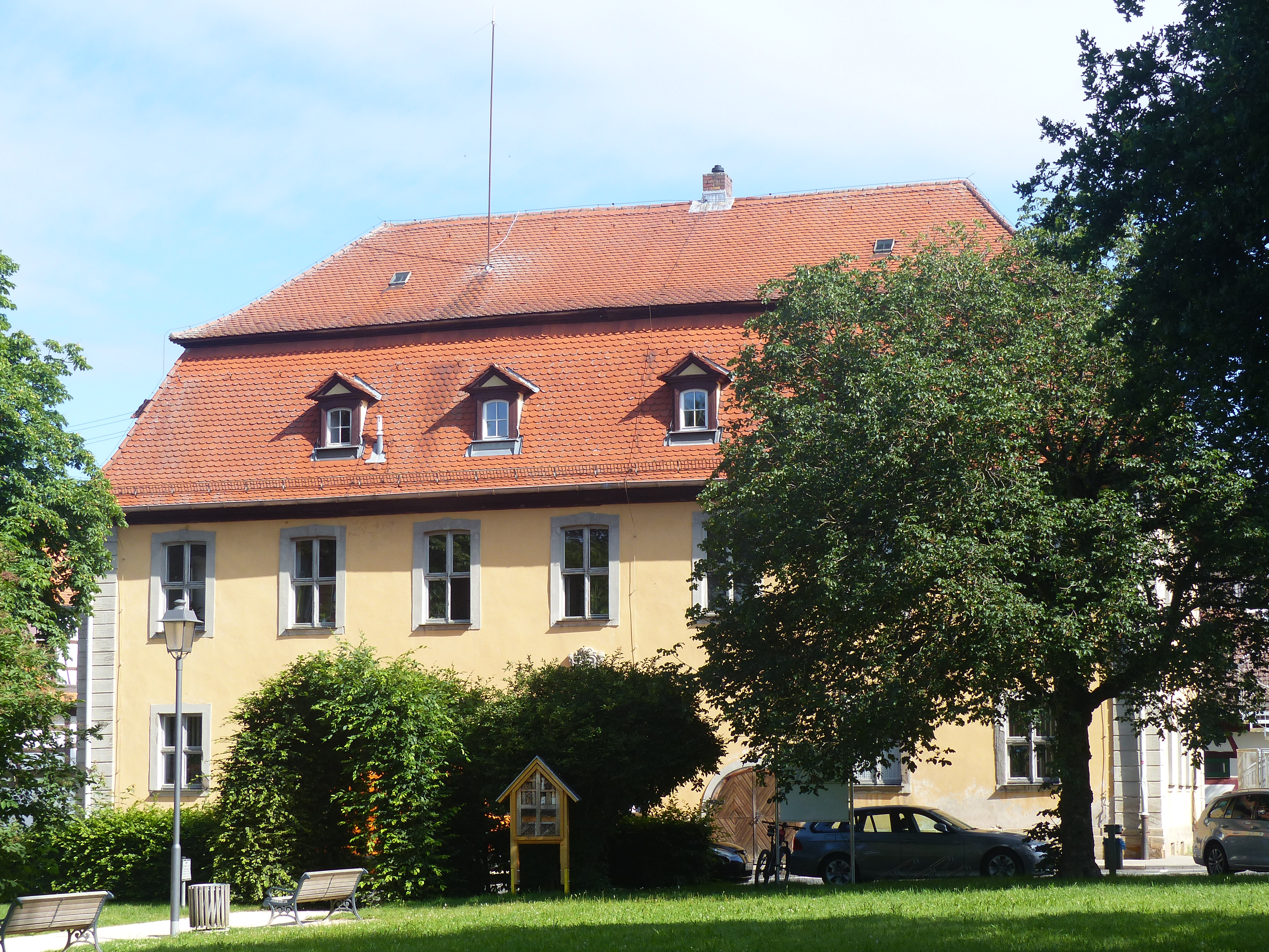 The former Amtshaus (official residence) of the Amt Scheßlitz, an administrative district of the Prince-Bishopric of Bamberg.